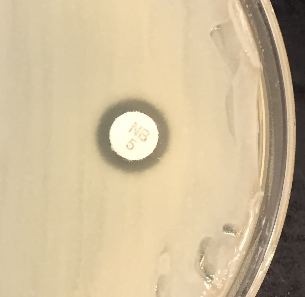 S. saphrophyticus on mueller-hinton agar exhibiting resistance to novobiocin characteristic for species identification.